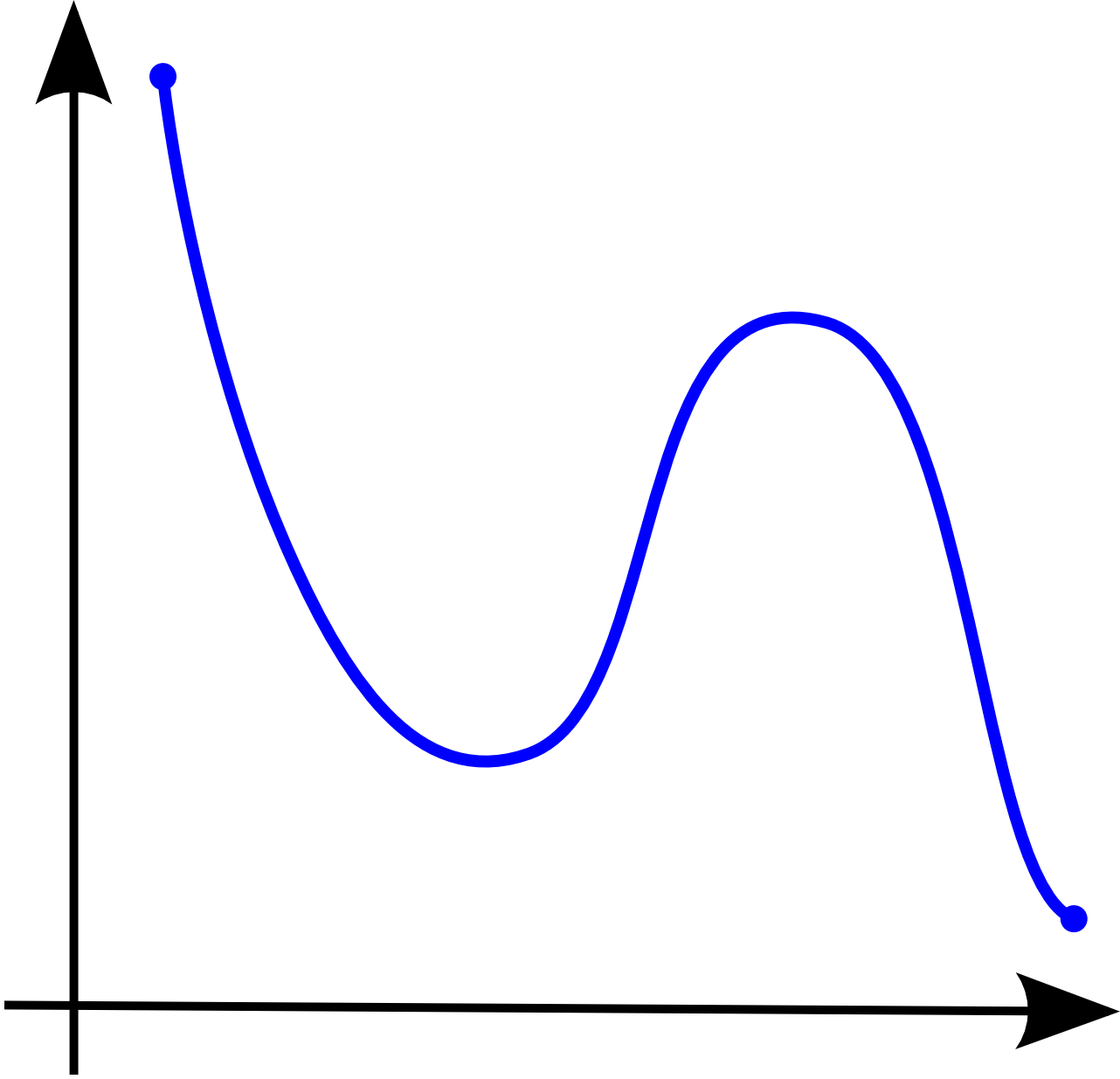 Illustration of Monotonic function